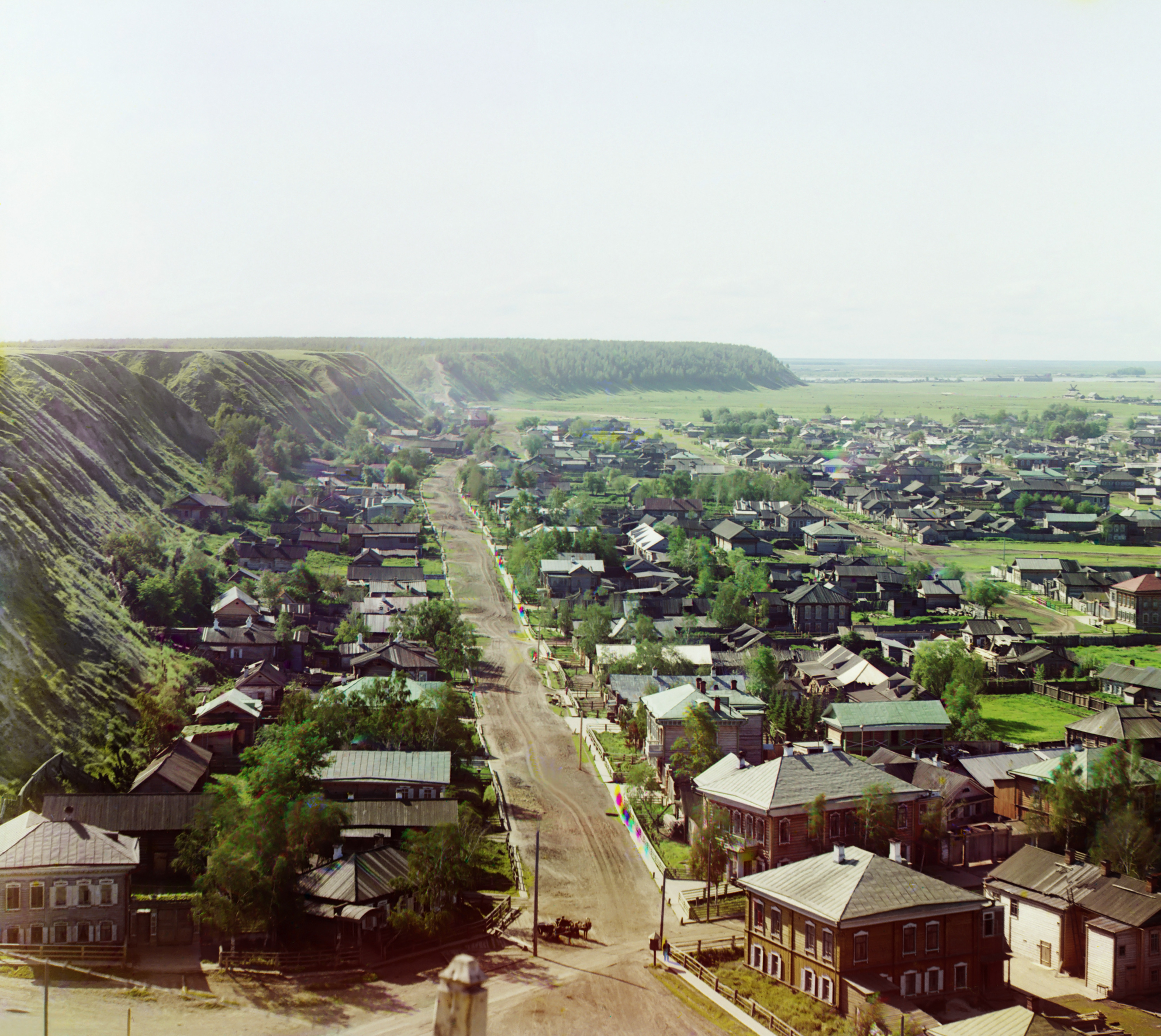 View of the city of Tobolsk from Assumption Cathedral (Uspensky Sobor) from the northwest. Russia.